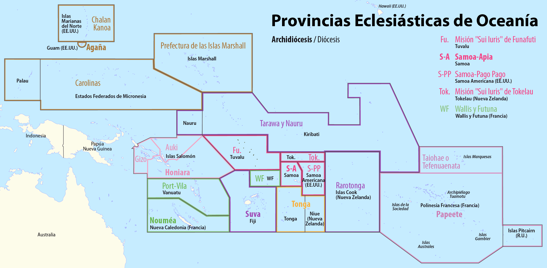 Map of the ecclesiastical provinces and dioceses of the Catholic Church in Oceania